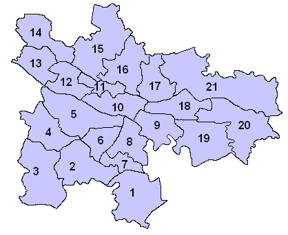 Based on Glasgow Wards.PNG.